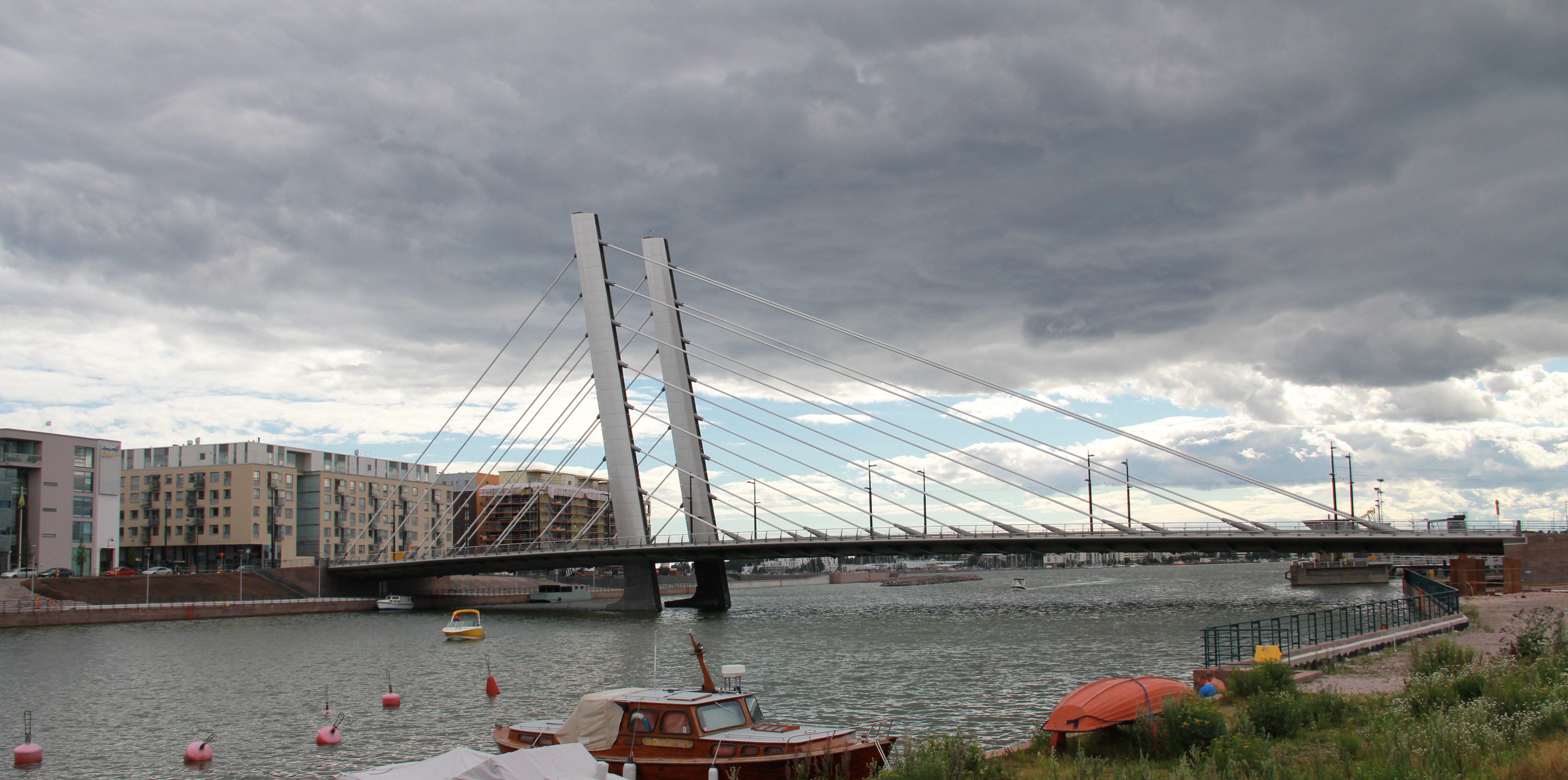 Crusell bridge, Helsinki, Finland. Completed 2011.